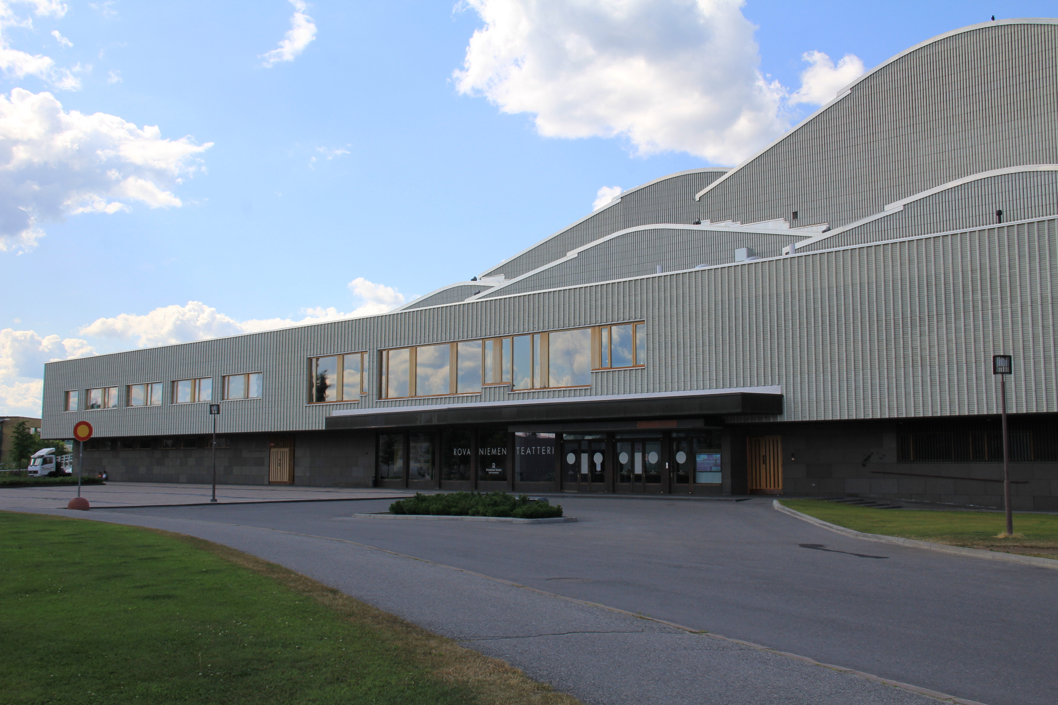 Rovaniemi theatre, Lappia House, Rovaniemi, Finland. - Eastern facade